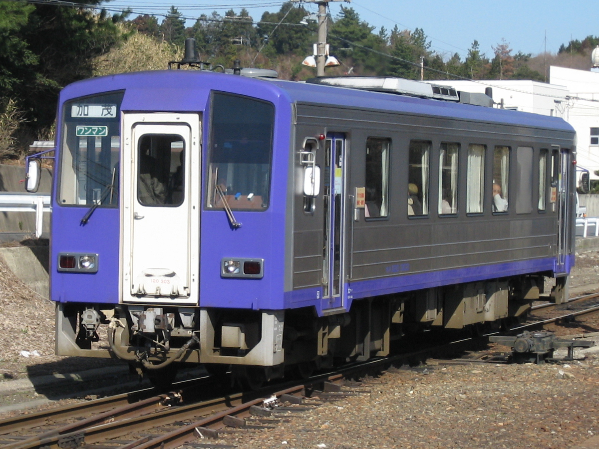 JR West KiHa 120 DMU car KiHa 120-303 at Tsuge Station on the Kansai Main Line